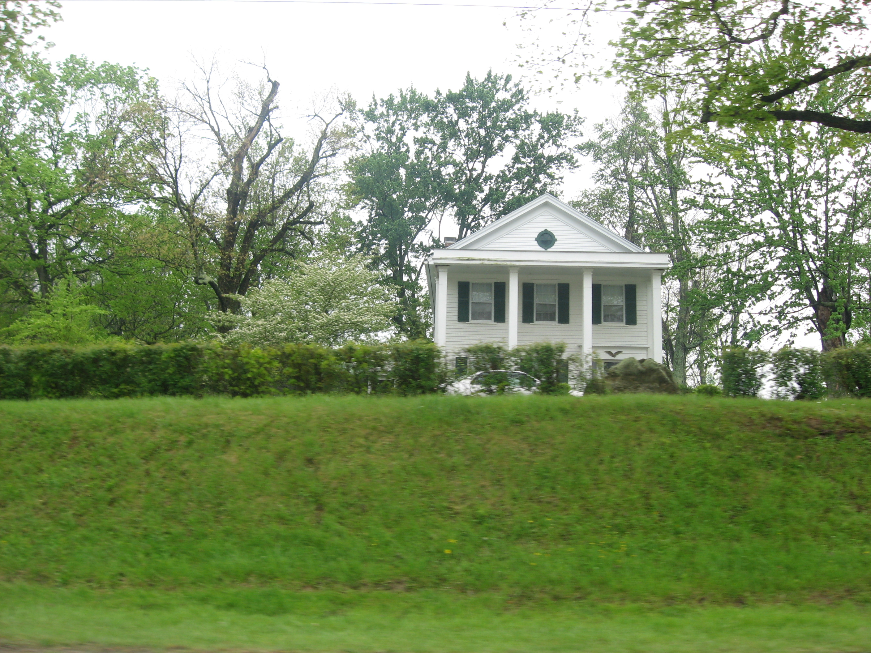 Front of the farmhouse at Eaglefield Place, located at 4870 E. U.S. Route 40 east of Brazil in Van Buren Township, Clay County, Indiana, United States. Built in 1855, it is listed on the National Register of Historic Places.